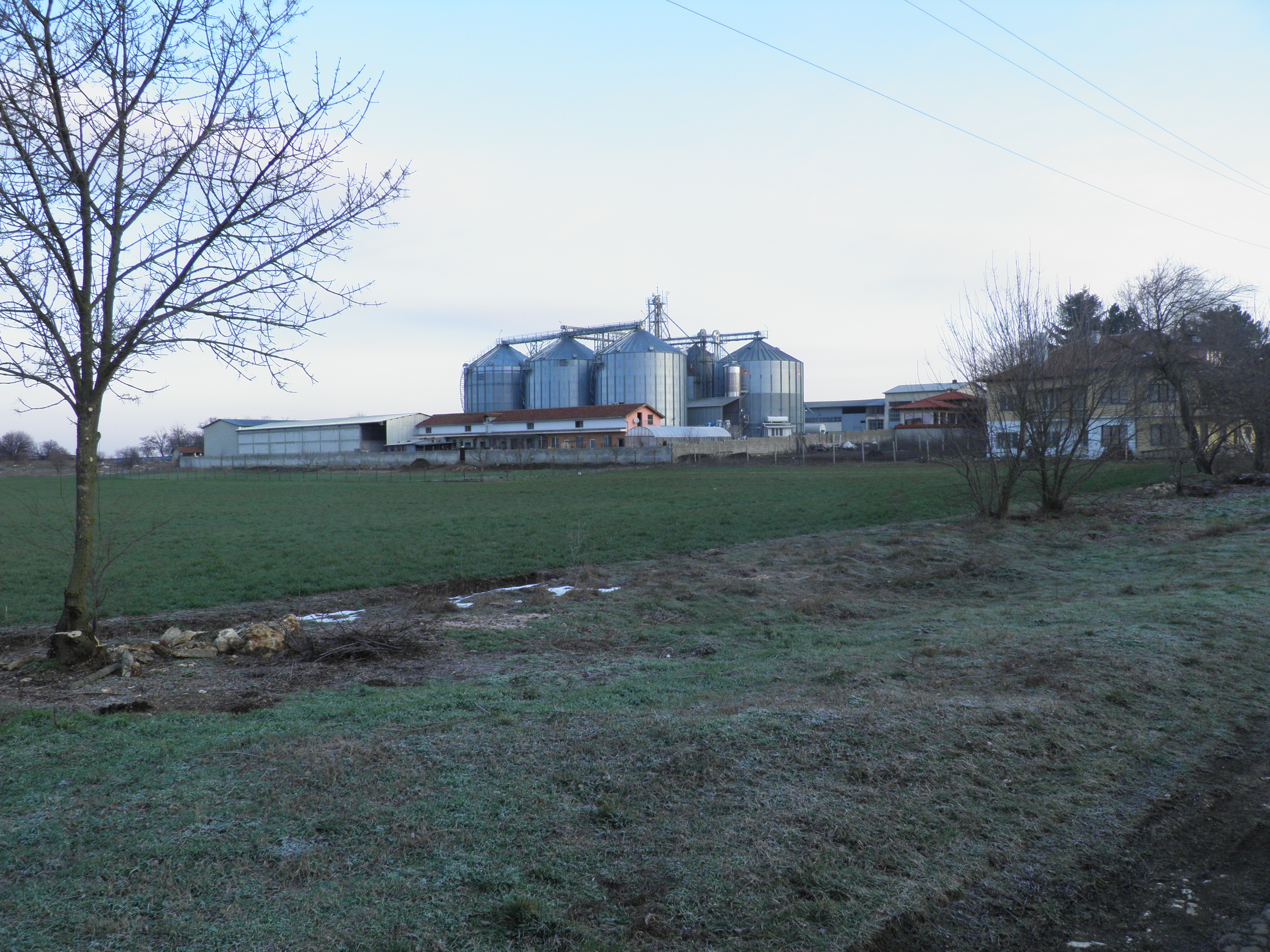 Cooperative farm,Oreshak,Varna,Bulgaria